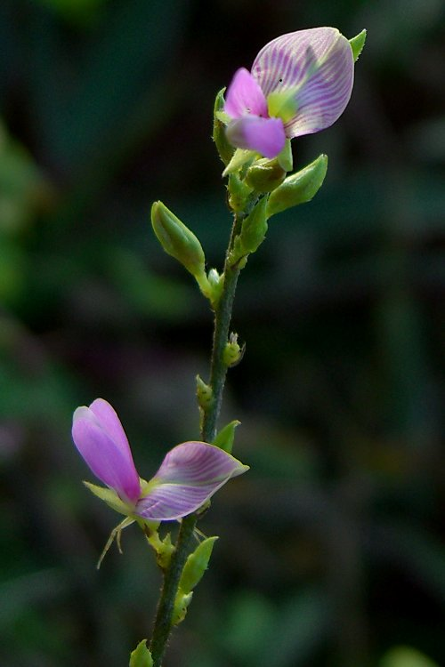 Galactia striata Florida Keys; Upper Keys; Buttonwood Bay, USA